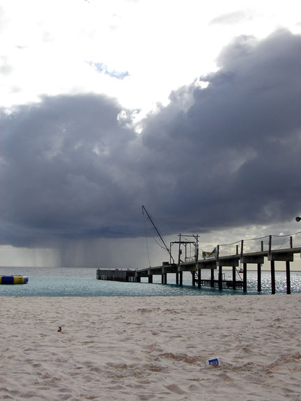 Boardwalk near Bridgetown, Saint Michael, Barbados; rainstorm visible in the distance.